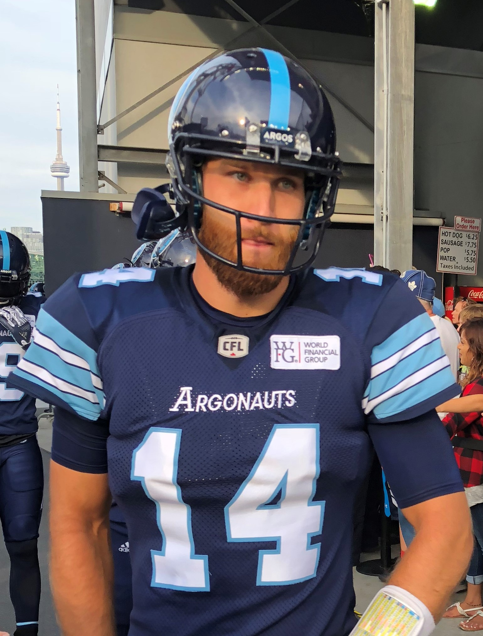 McLeod Bethel-Thompson, Quarterback for the Toronto Argonauts.